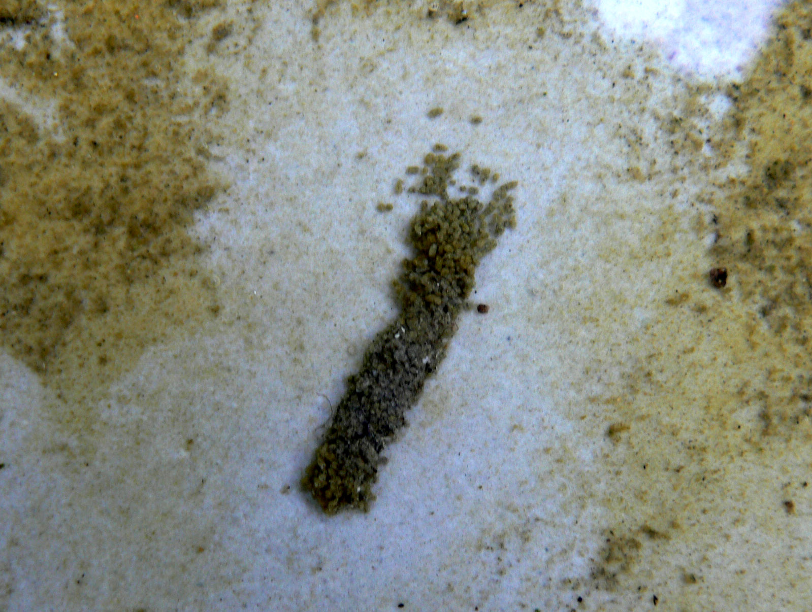 Chironomidae (or bloodworm) larva, in an artificial pound, in Lille (North of France)